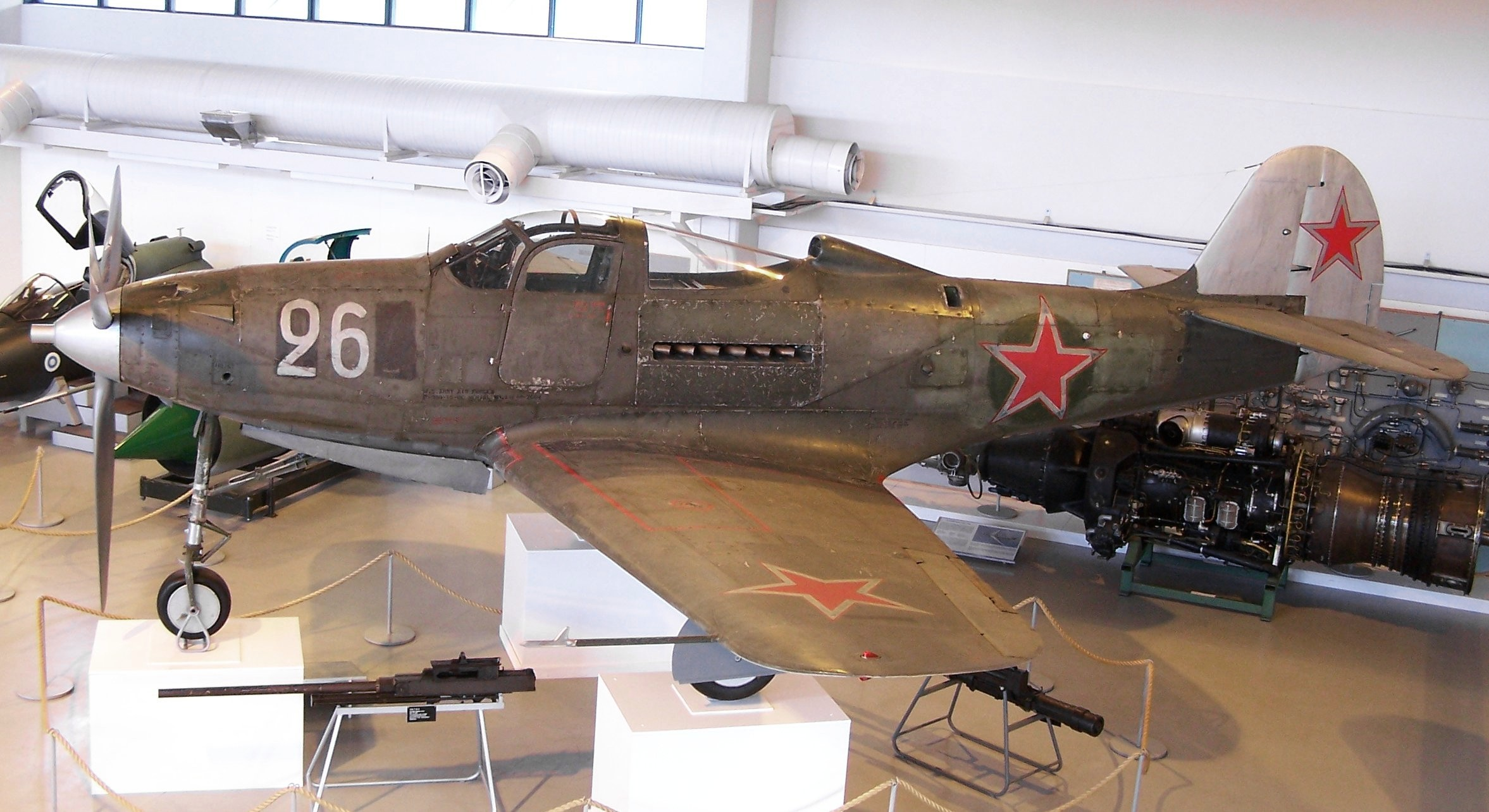 P-39Q Airacobra in The Aviation Museum of Central Finland in Tikkakoski, Jyväskylän maalaiskunta, Finland. Restored P-39Q Airacobra, "White 26", on static display. The aircraft is originally a Soviet lend-lease plane, shot down and captured by Finnish troops in World War Two. It has been restored in the original wartime camouflage and markings.